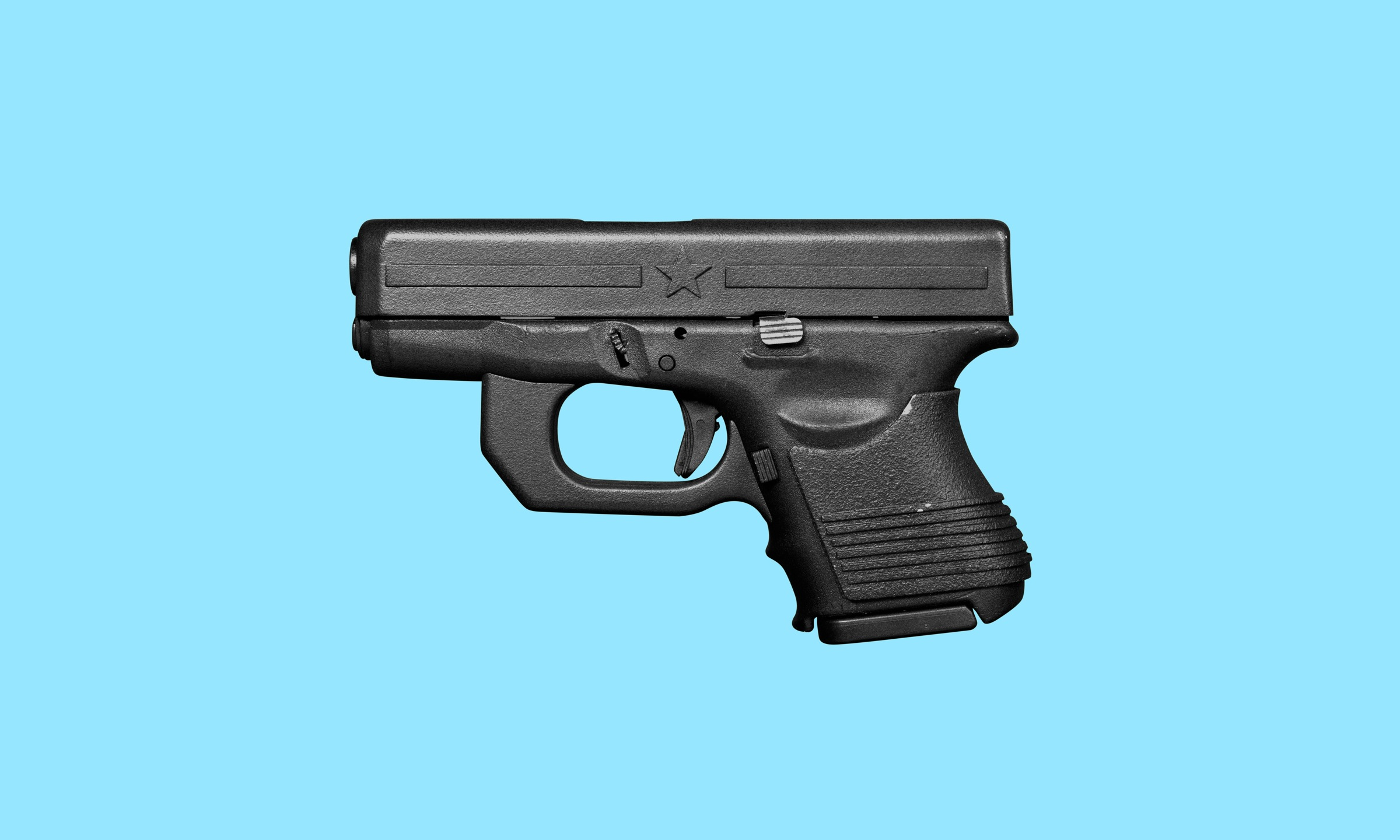 This a photo of James Georgopoulos' work to be used on his wiki: James Georgopoulos